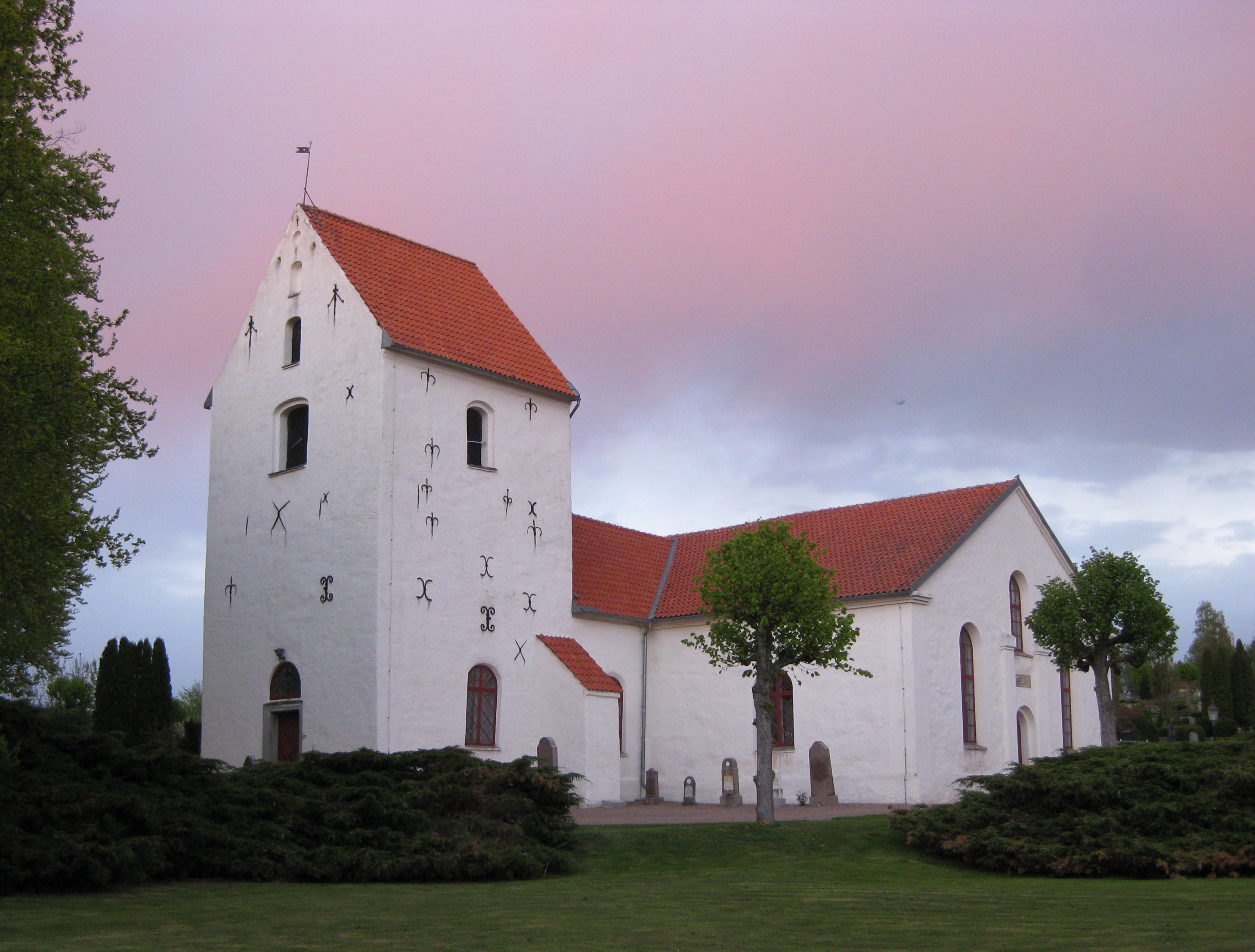 Ottarp church in Skåne, Sweden